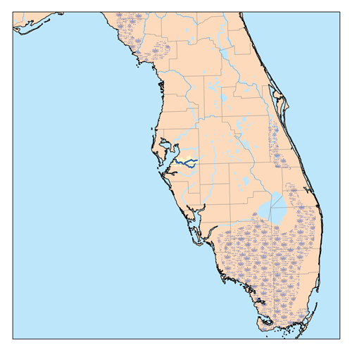 This is a map of the Little Manatee River watershed. I, Karl Musser, created it based on USGS data.